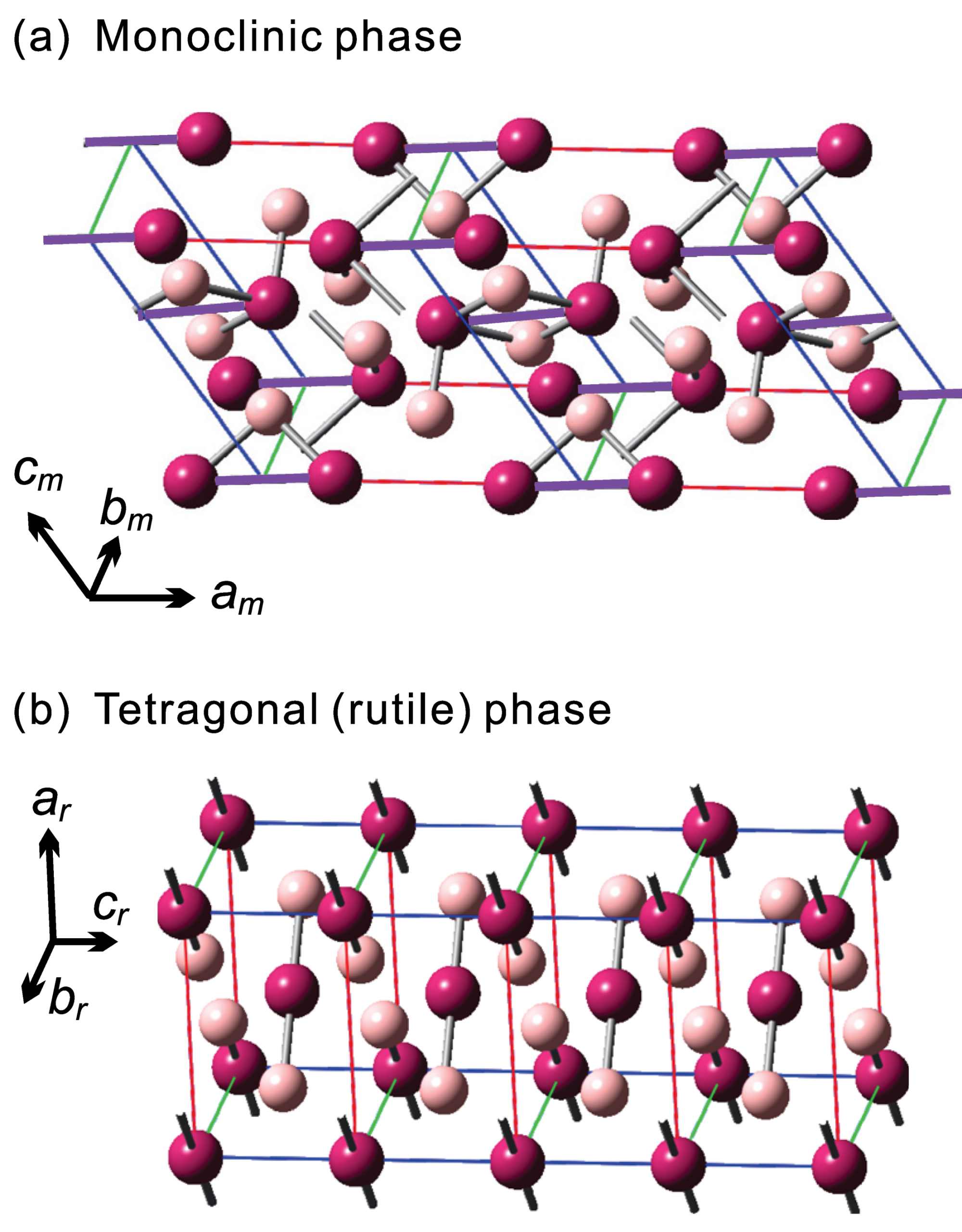 (a) Structure of the monoclinic, low-temperature phase, where vanadium atoms are depicted in purple and oxygen atoms in pink. The V–V dimers are highlighted by violet lines. (b) Structure of the tetragonal (rutile), high-temperature phase. The distances between adjacent vanadium atoms are equal.